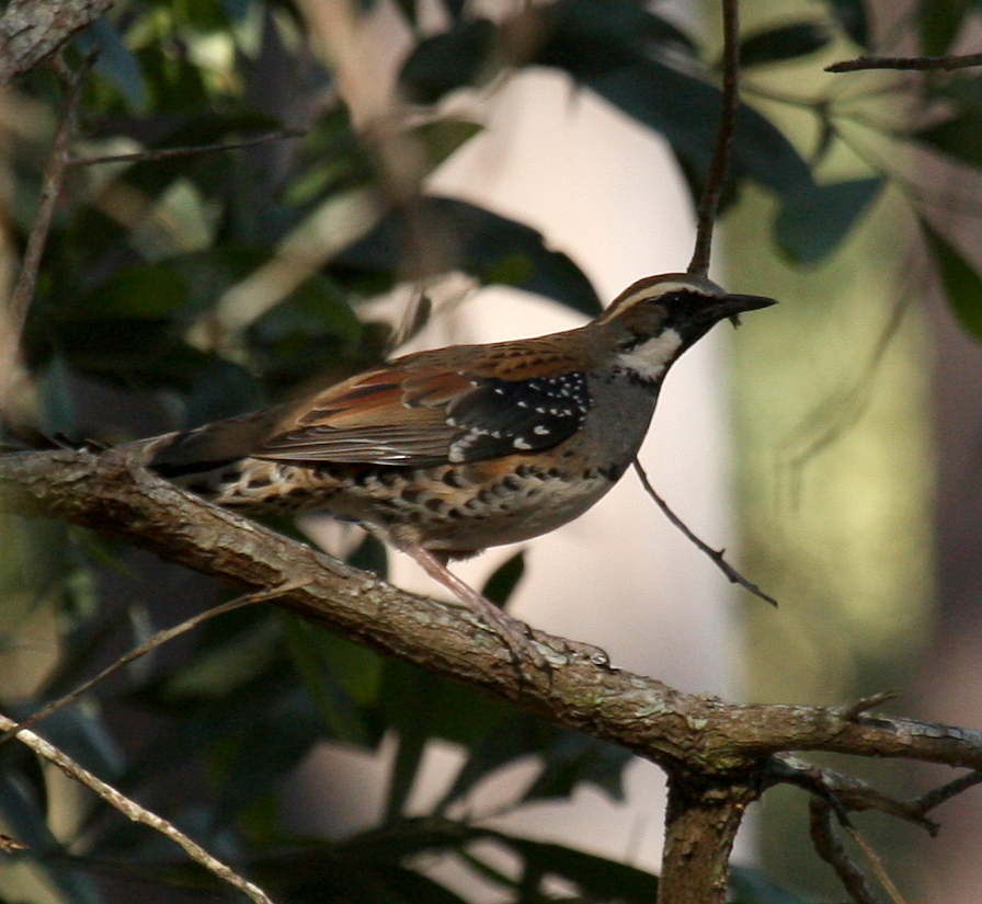 Male Spotted Quail-thrush (Cinclosoma punctatum) Armstrong Creek, SE Queensland, Australia